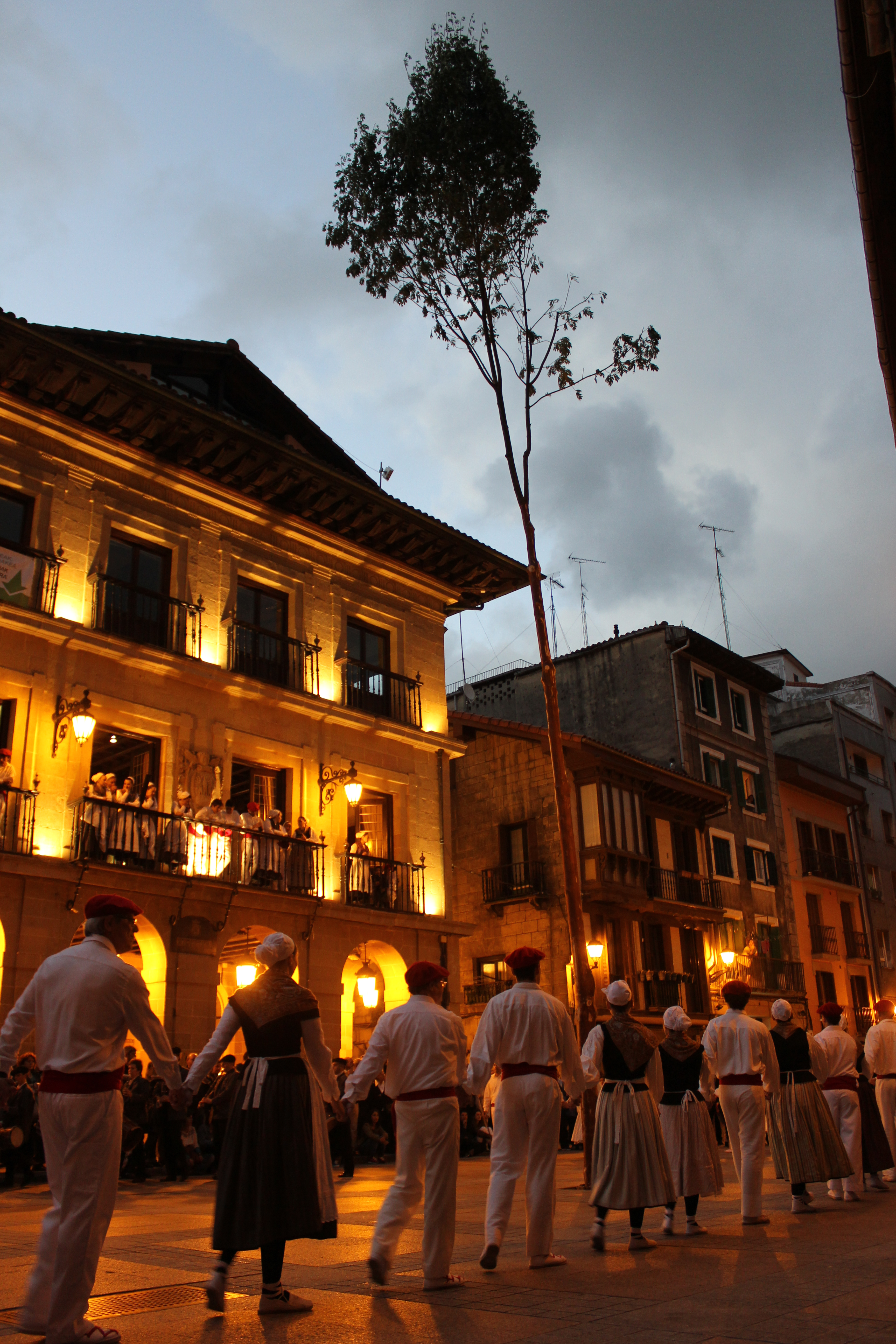 Midsummer festival in Errenteria.